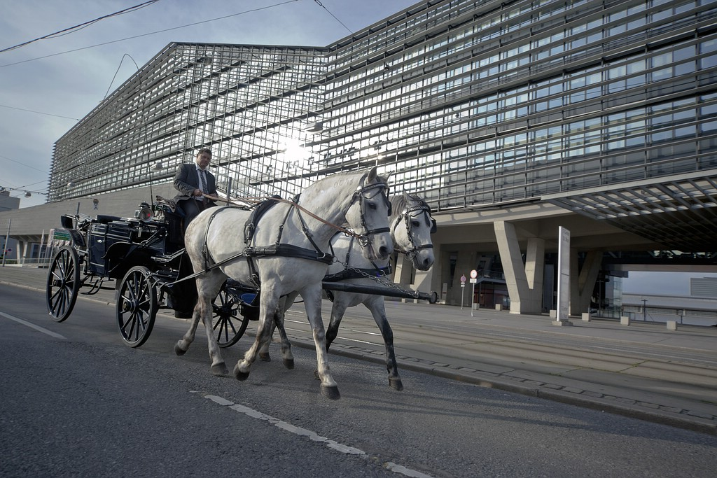 Fiaker